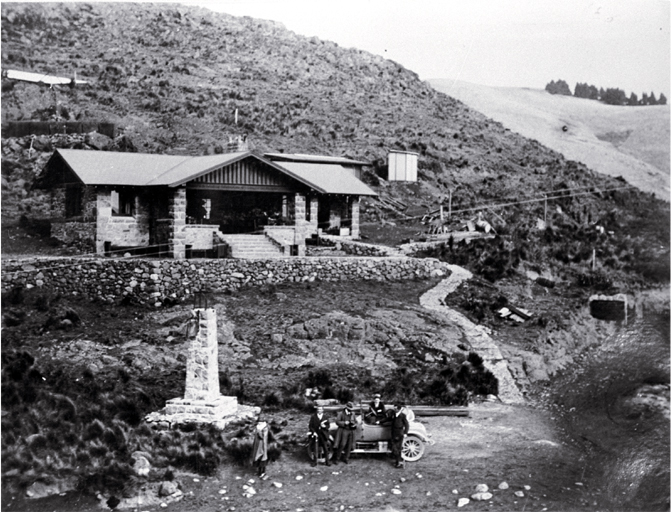 A car and excursionists in front of the Sign of the Kiwi, Dyers Pass, Summit Road, Christchurch